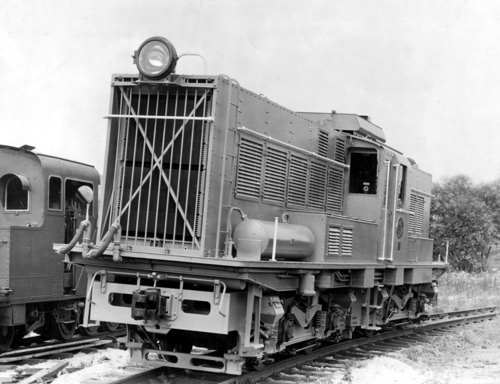 SAR Class DS no. D137, later renumbered to D513.